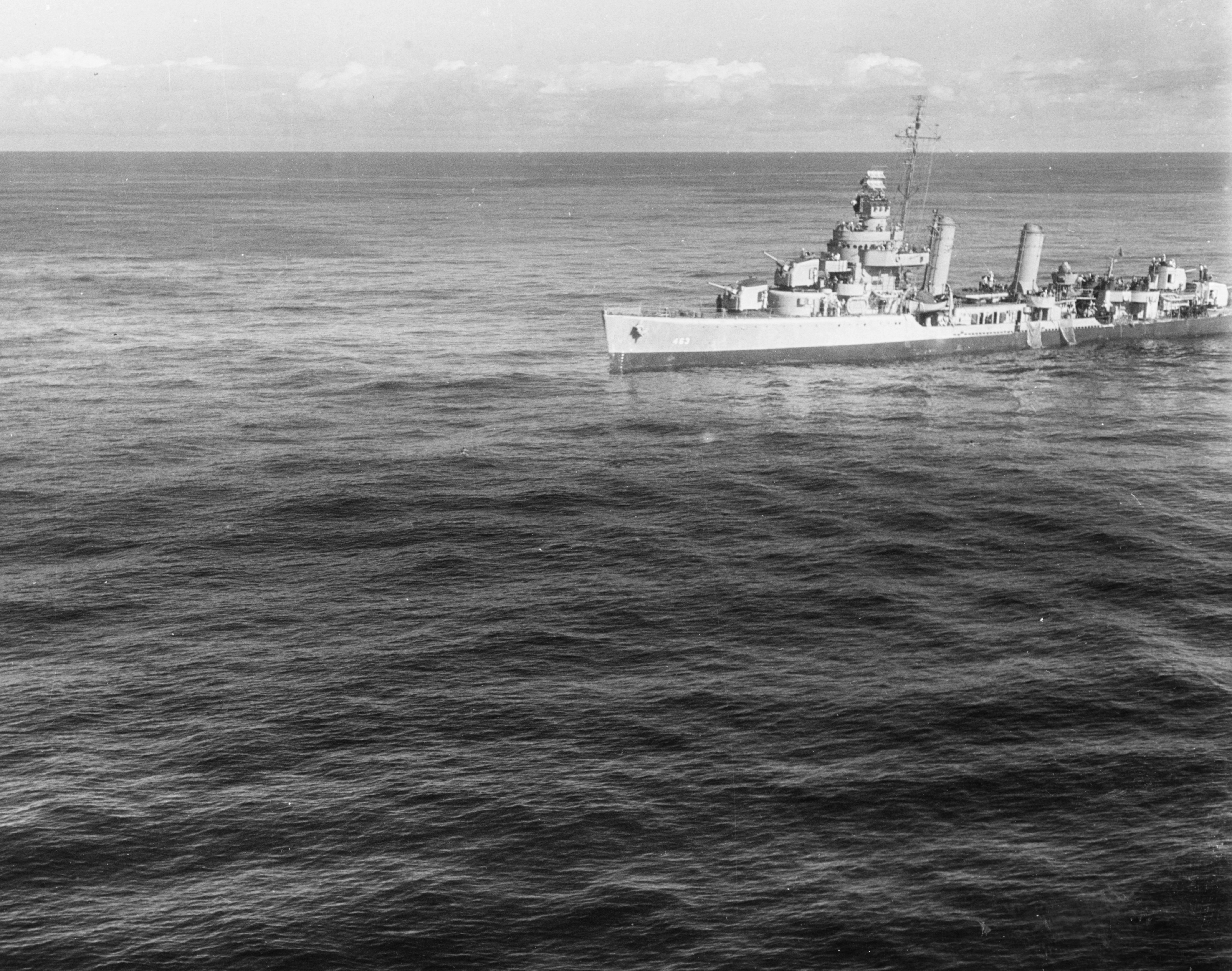 The U.S. Navy destroyer USS Corry (DD-463) with nets over her side, rescuing survivors of German submarine U-801, after the submarine had been sunk by aircraft and surface ships of the USS Block Island (CVE-21) Hunter-Killer-Group in position 16°41'N, 29°58'W, 17 March 1944. U-801 was sunk by a Fido homing torpedo by two Avenger and one Wildcat aircraft of Composite Squadron 6 (VC-6) from USS Block Island, along with depth charges and gunfire from Corry and USS Bronstein (DE-189). Lieutenant Junior Grade Paul Sorenson strafed and Lieutenant Junior Grade Charles Woodell depth charged U-801.